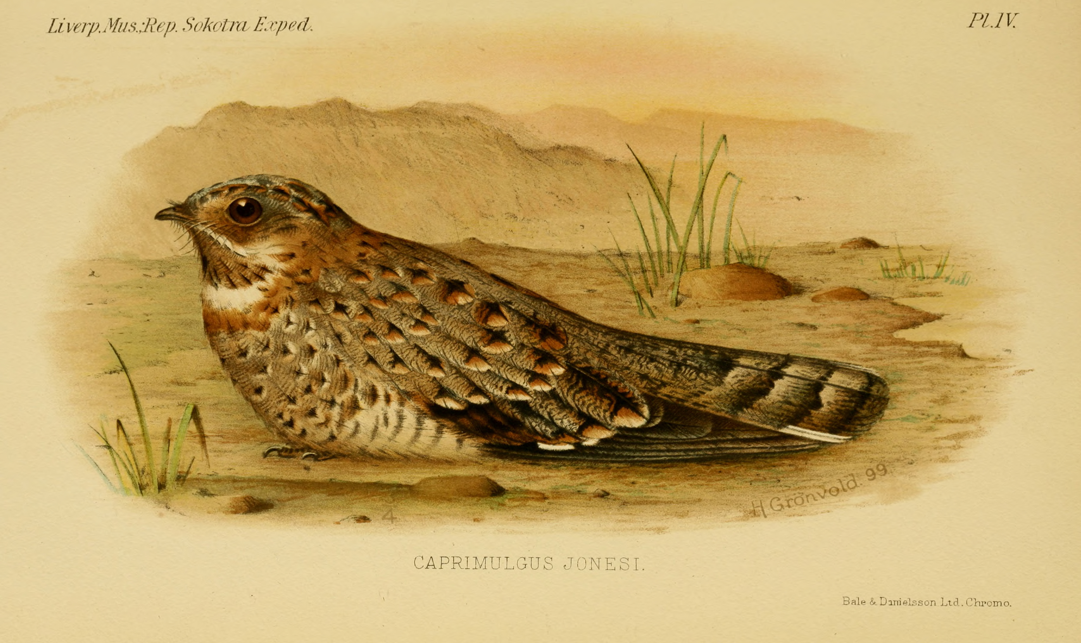 Caprimulgus (nubicus) jonesi from The Natural History of Sokotra and Abd-el-Kuri